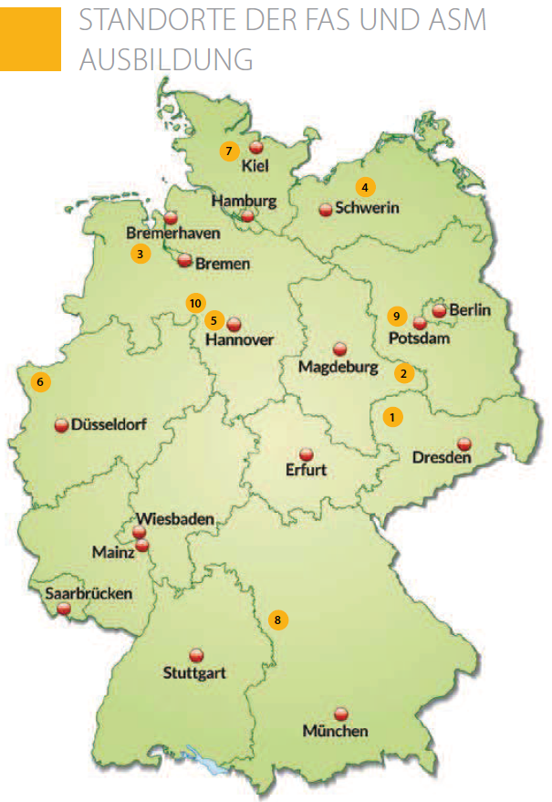 Aus- und Fortbildungsstandorte FAS und ASM